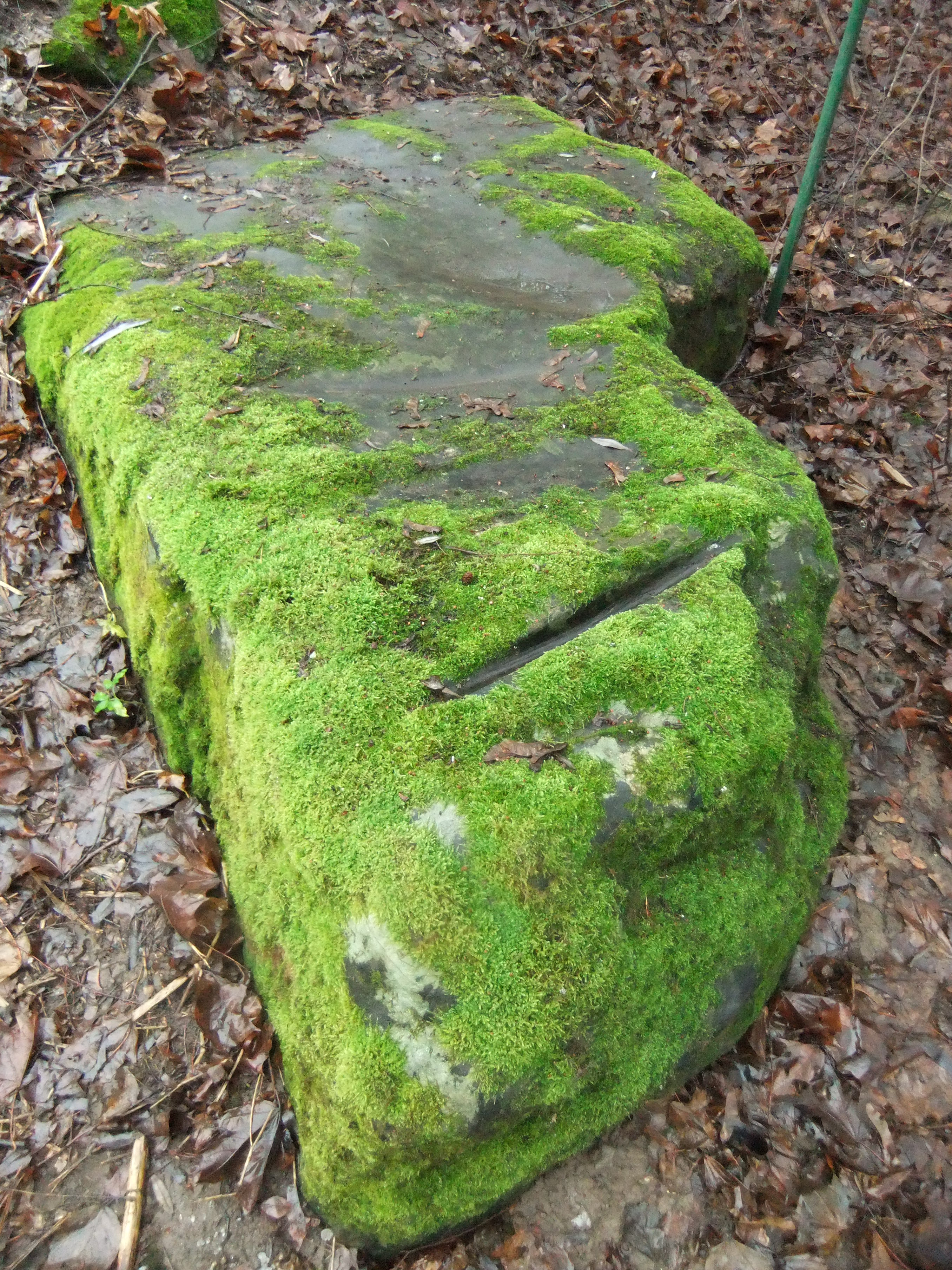 The Lahdentaka Groove Stone at Tyrväntö, Hattula, Finland. An Iron Age heritage site.